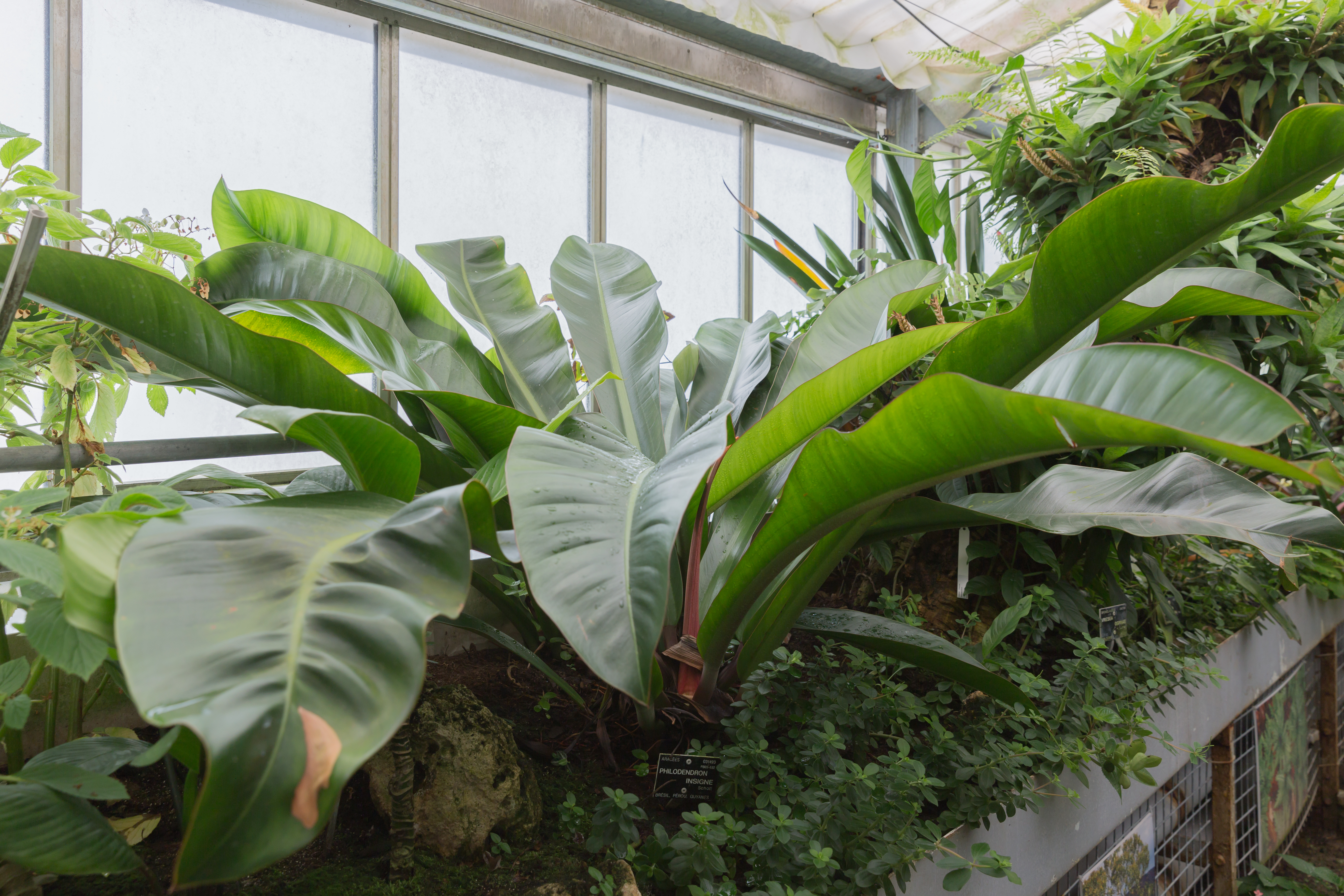 Philodendron insigne in the botanical garden of Lyon, France.